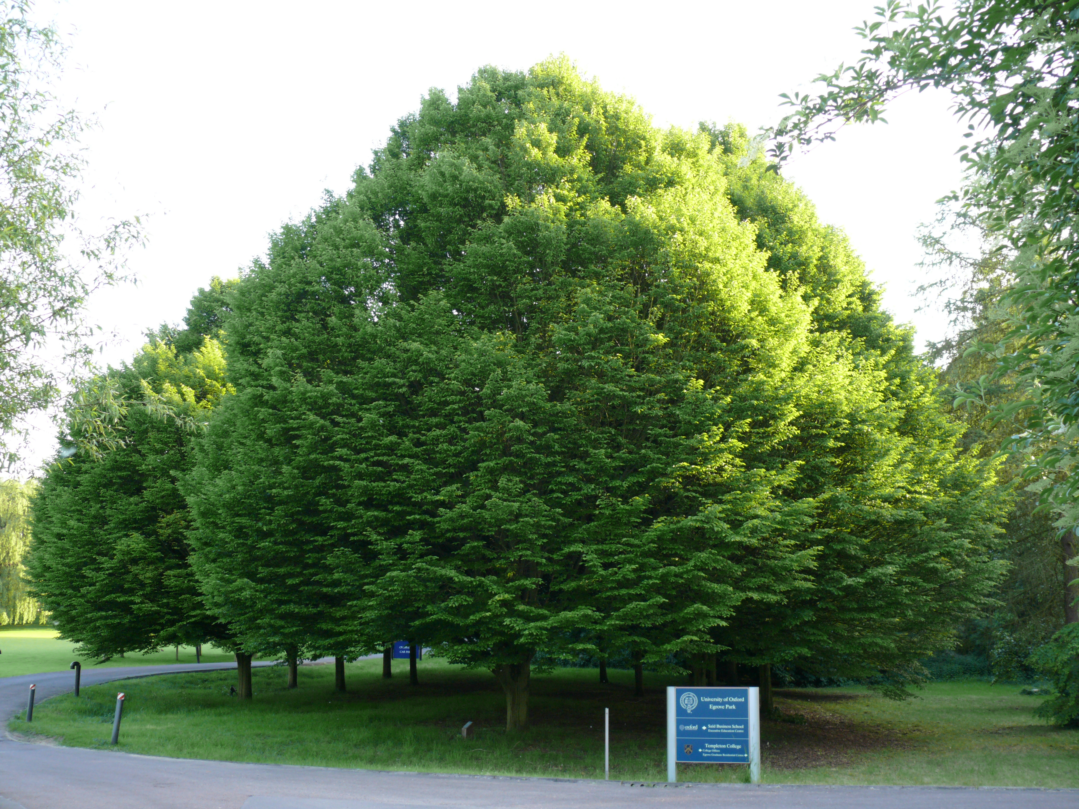 A European Hornbeam (Carpinus betulus) in summer. Taken at the main entrance to Templeton College. Fastigiata, or "Pyramidal Hornbeam", variant.